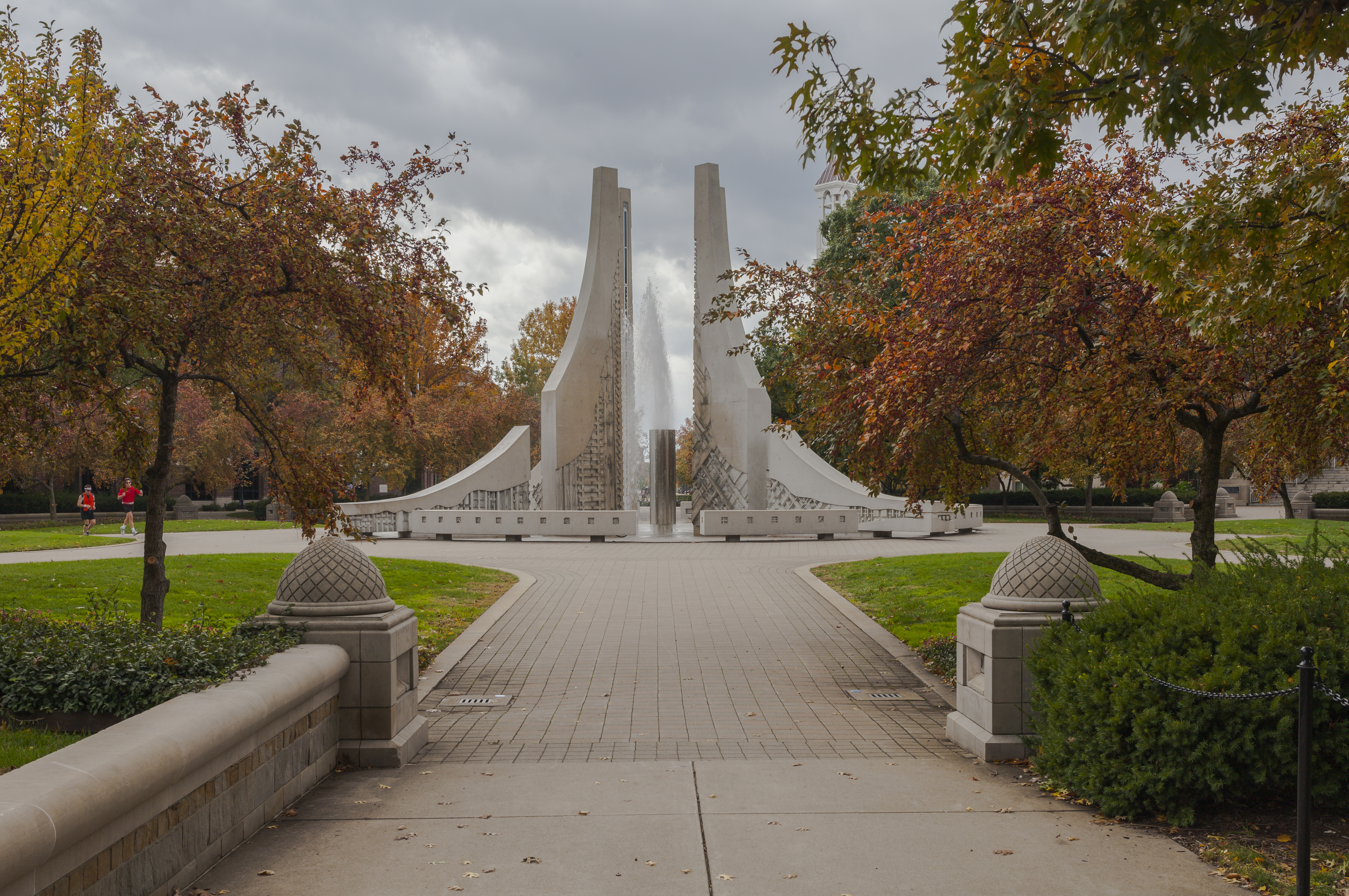 Purdue University, West Lafayette, Indiana, USA